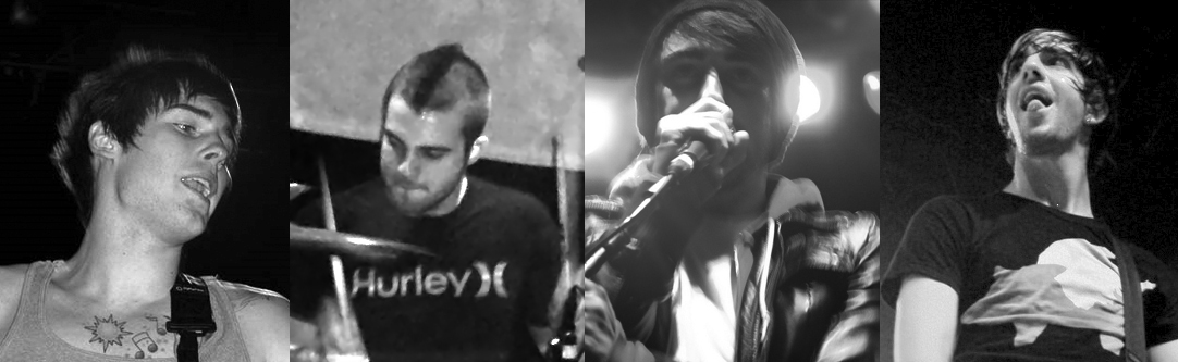 Zack Merrick of American pop punk band All Time Low performing at Ram's Head Live! Holiday Show on December 26, 2007.